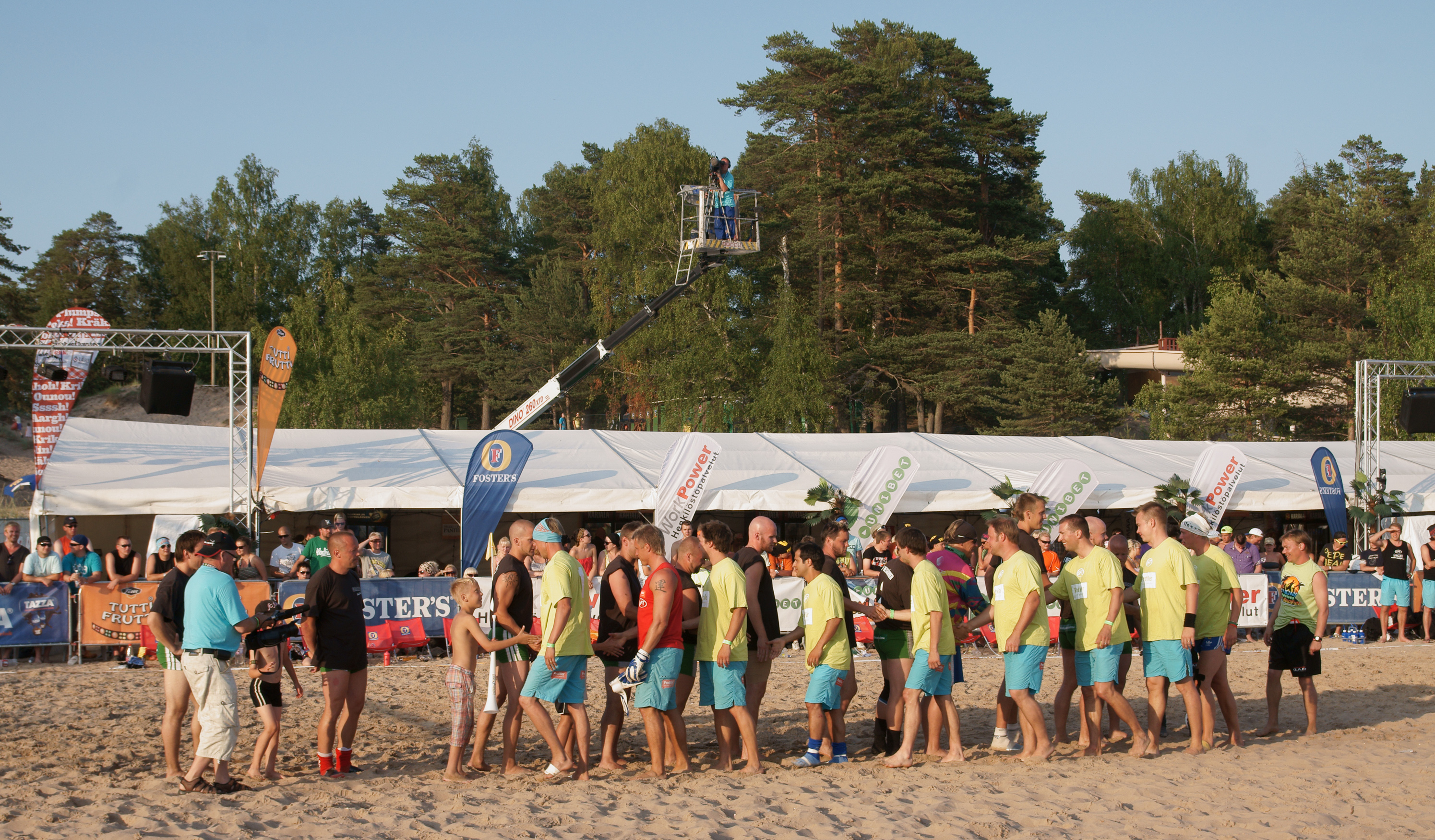 Beach football: men's final at Yyteri BeachFutis 2010, BF Mesikämmen vs. GFT Team Beach.